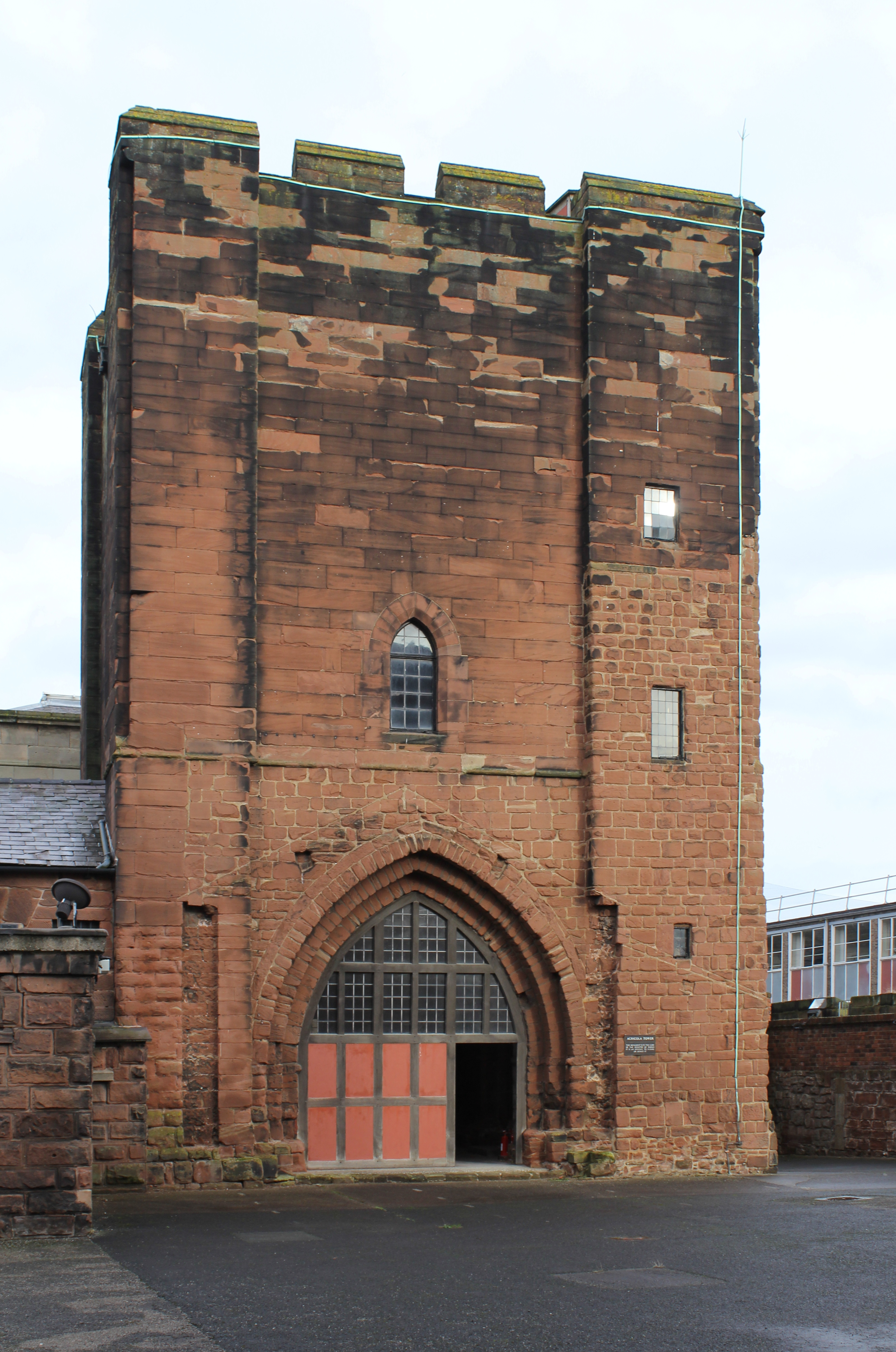 CBA North-west Autumn meeting: tour round Chester Castle. The exterior of the Agricola Tower.